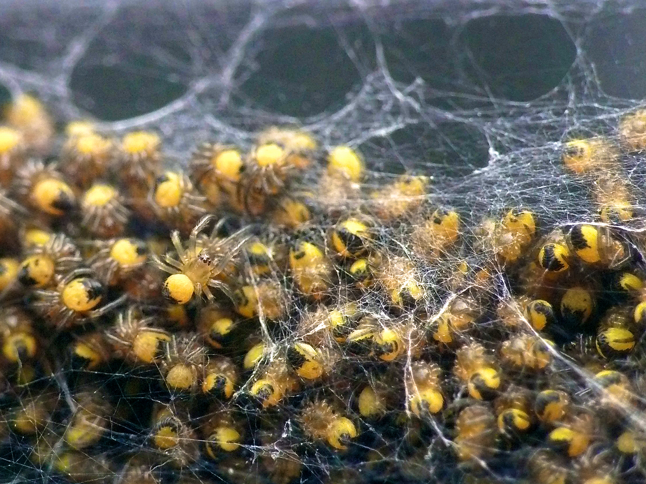 Newly hatched orb weavers, undetermined genus/species.